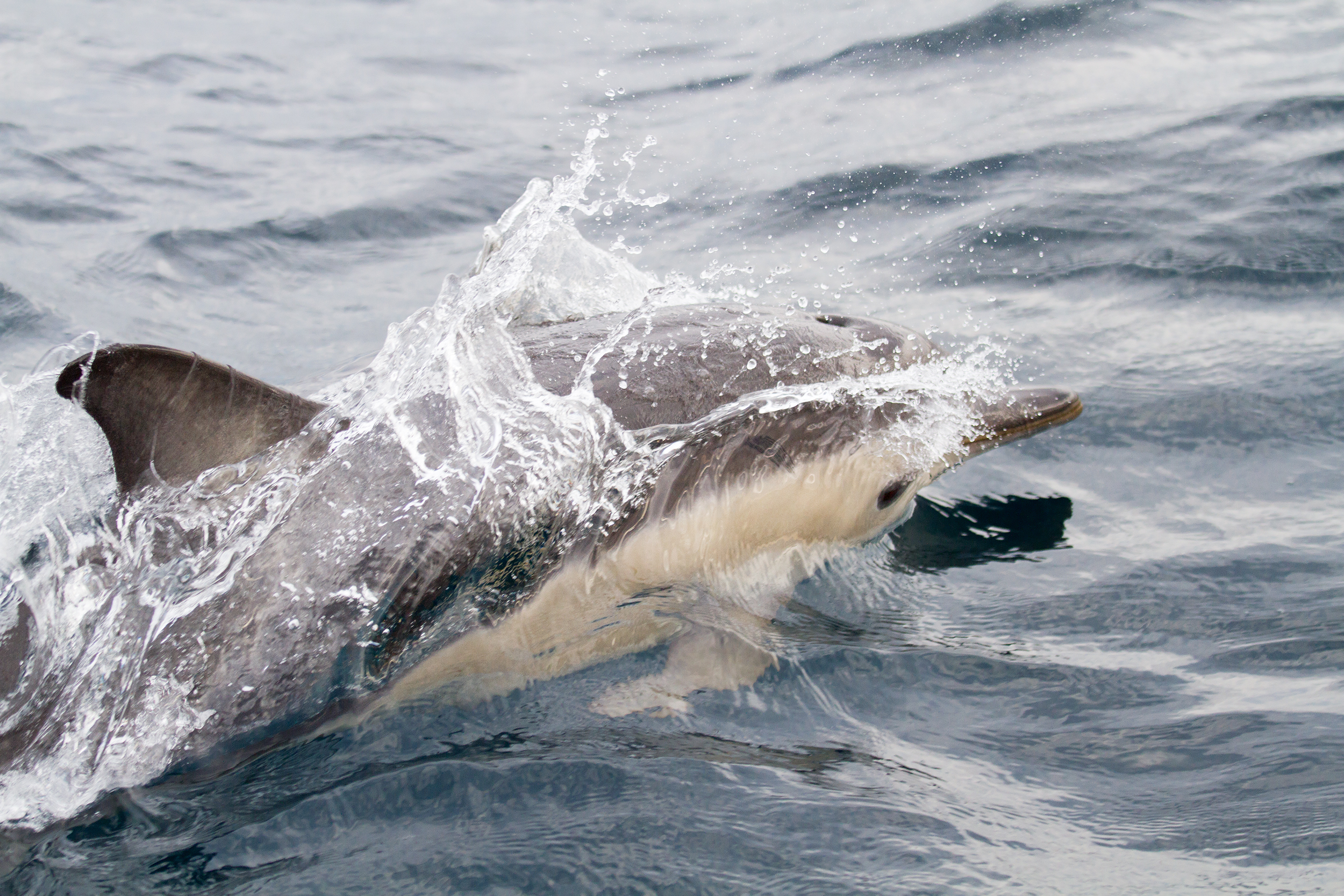 Short-beaked common dolphin (Delphinus delphis) surfing on the bow wave of a boat, East of the Tasman Peninsula, Tasmania, Australia